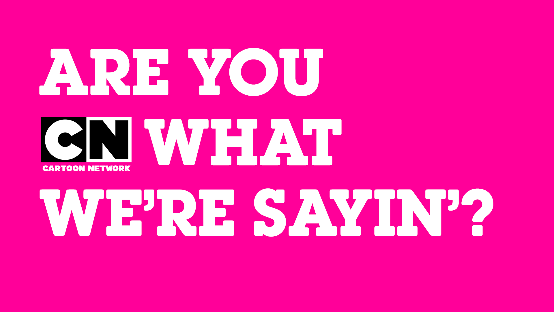 Cartoon Network's 2014 slogan